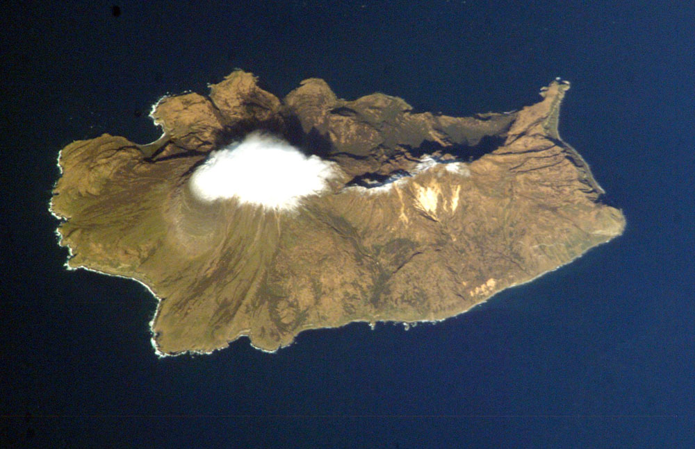 Ekarma